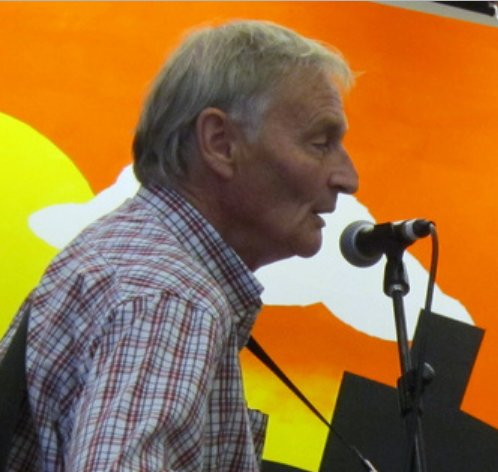 Len Garry in 2011.